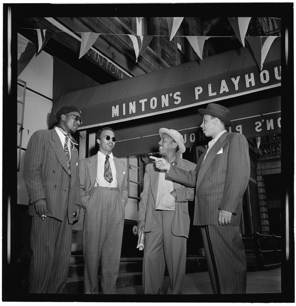 Thelonious Monk, Howard McGhee, Roy Eldridge, and Teddy Hill, Minton's Playhouse, New York, N.Y., ca. Sept. 1947 (Photograph by William P. Gottlieb)